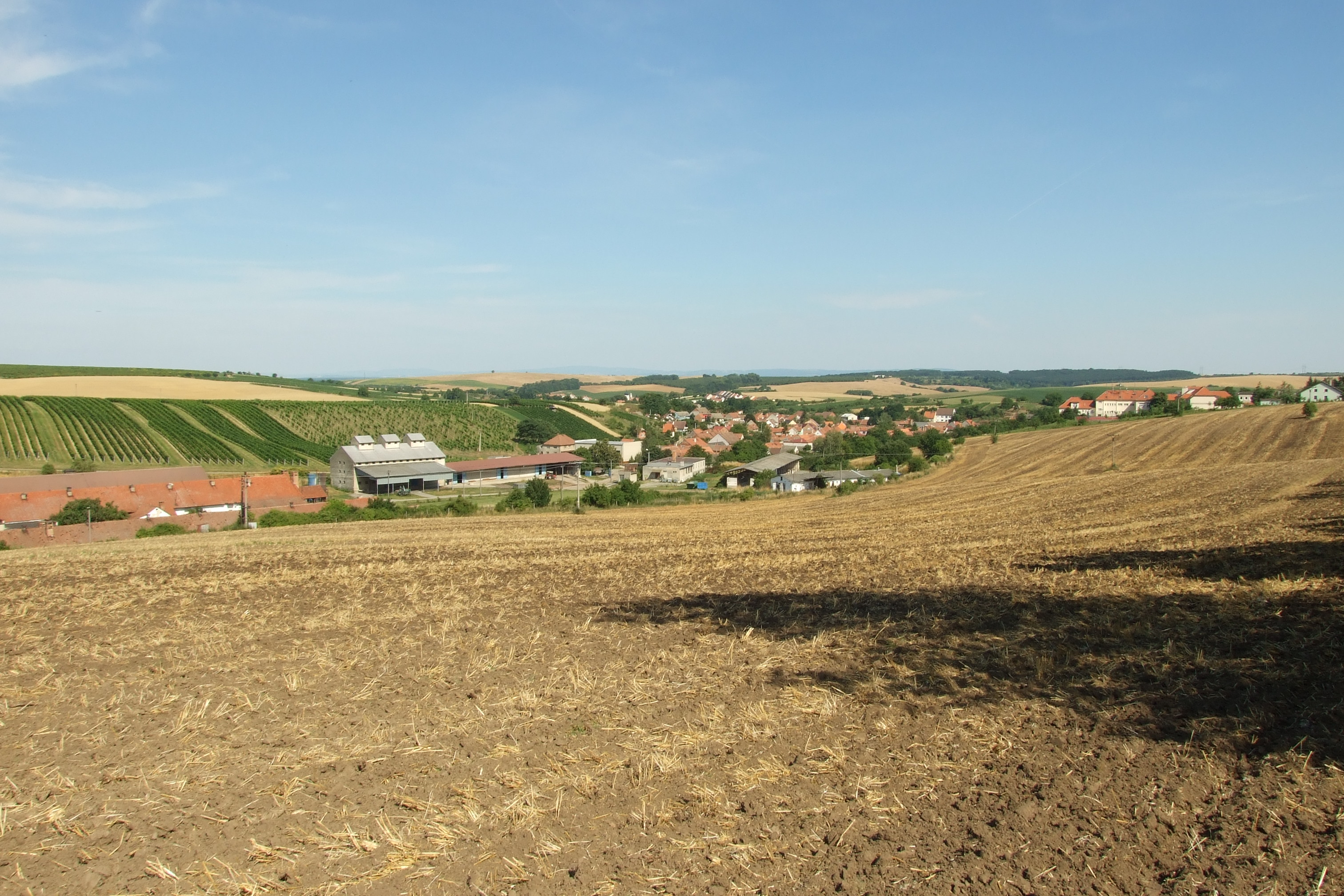 Village Hovorany from northwest